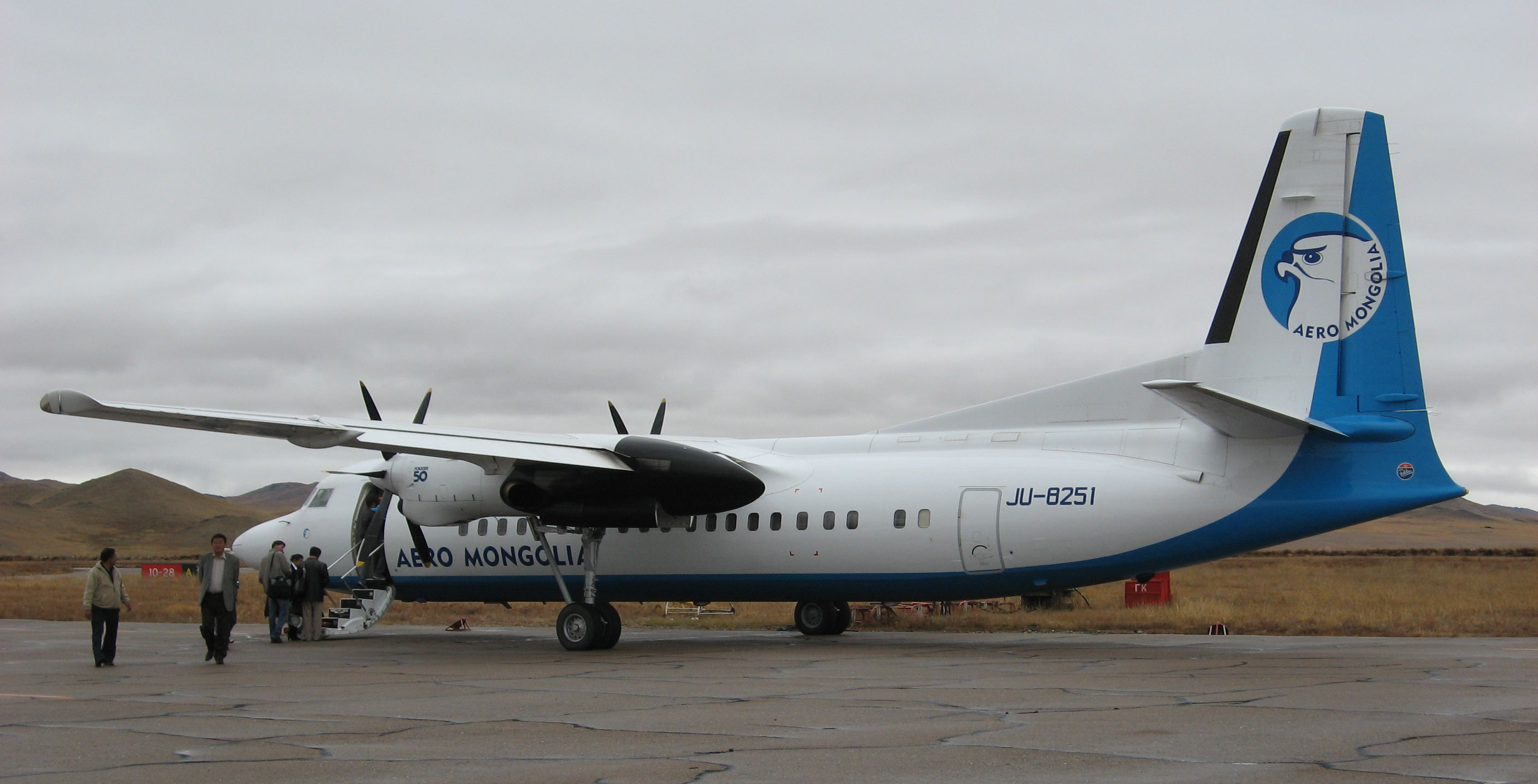 Fokker-50 airplane of Aeromongolia, at Mörön Airport, September 2006